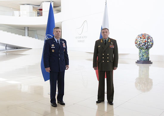 Начальник Генерального штаба Вооруженных Сил России встретился в Баку с Верховным главнокомандующим объединенными силами НАТО